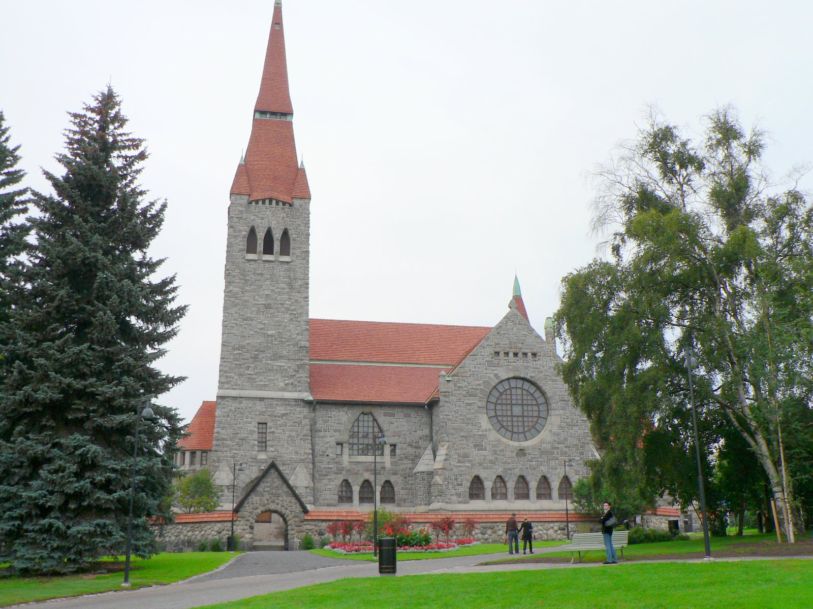 Tampere Cathedral, Tampere, Finland